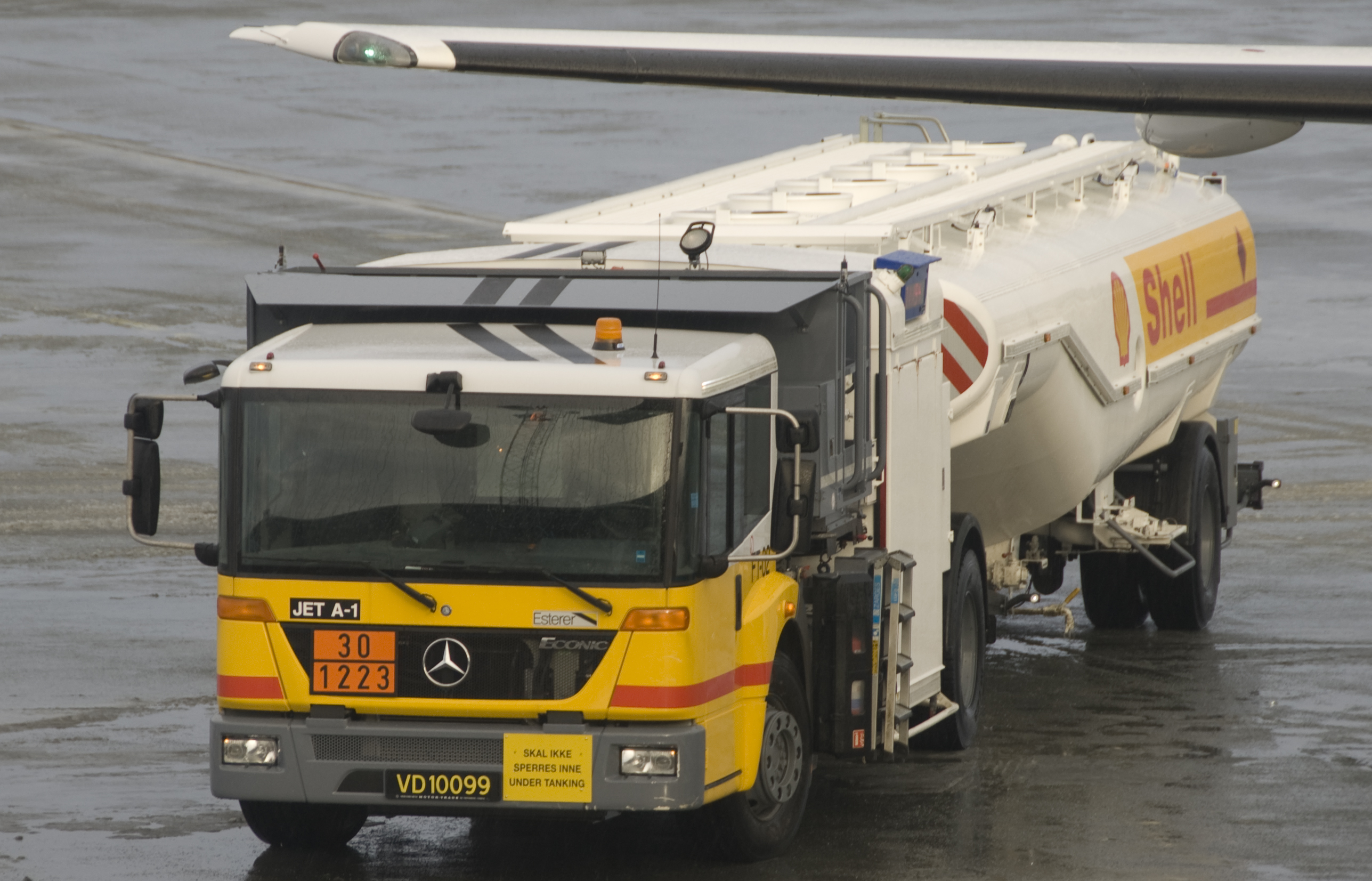 Shell Aviation fuel truck at Trondheim Airport, Værnes